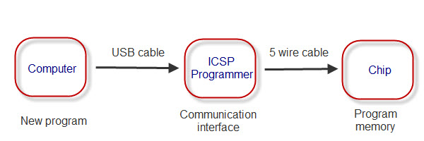 Icsp communication diagram